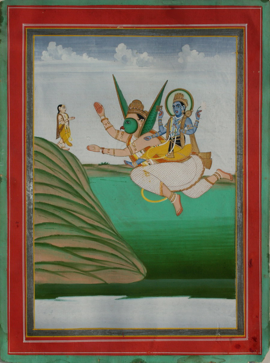 the sage Narada offering respect to Vishnu on Garuda. Bikaner in the Jaipur manner, second half 19th century. Opaque watercolour with gold on wasli. Folio 39.2 x 29.1cm; image 31.5 x 22cm Published: 'The Bikaner School; Usta Artisans and Their Heritage', Shanane Davis, 2008, plate 185 Ref: Bikaner-Jaipur Narada 28511